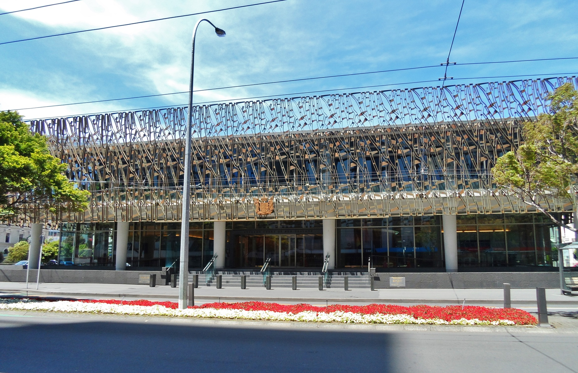 Entrance to New Zealand Supreme Court building in Wellington in 2015.